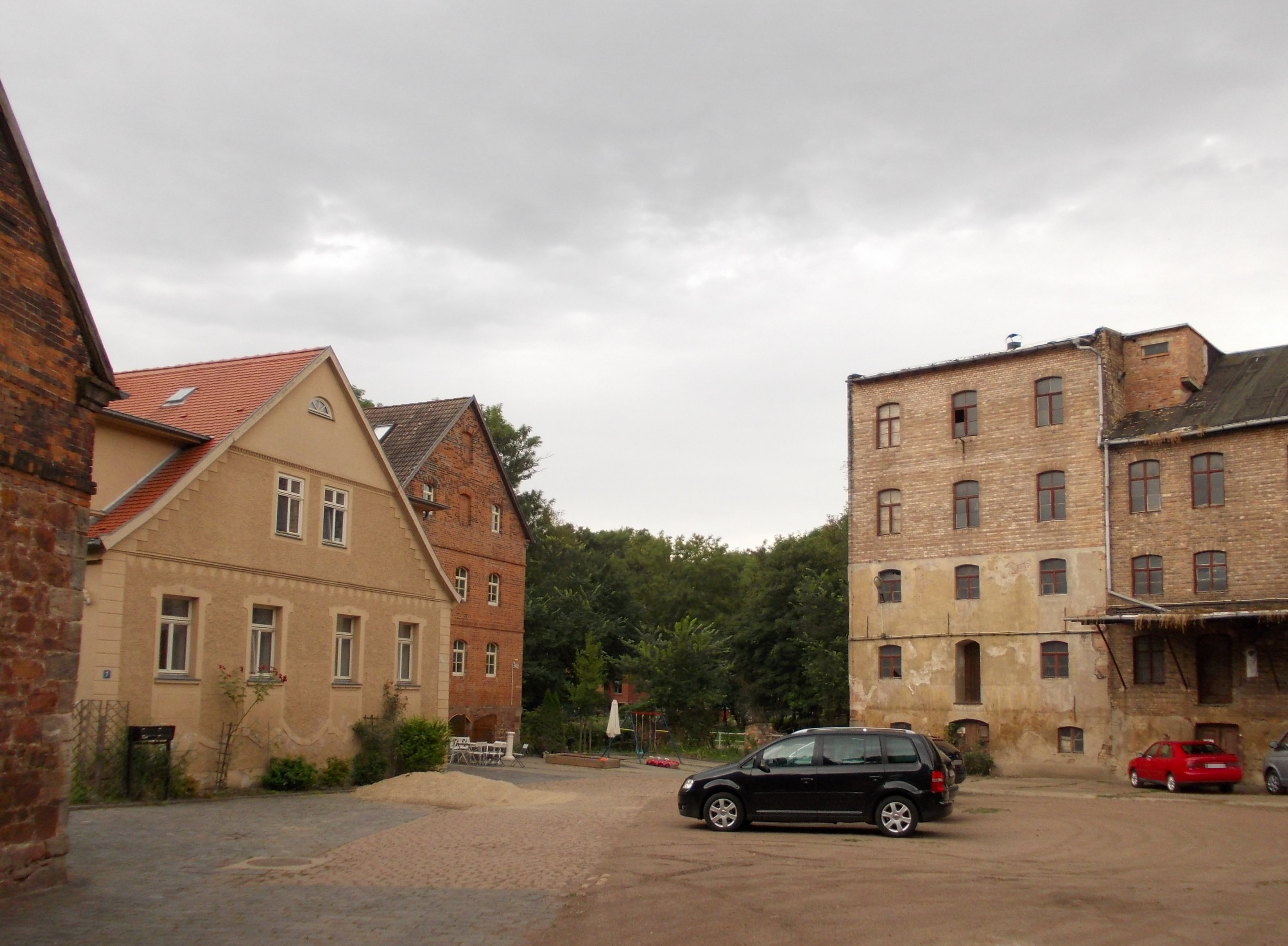 Trotha Mill (Halle/Saale, Saxony-Anhalt)